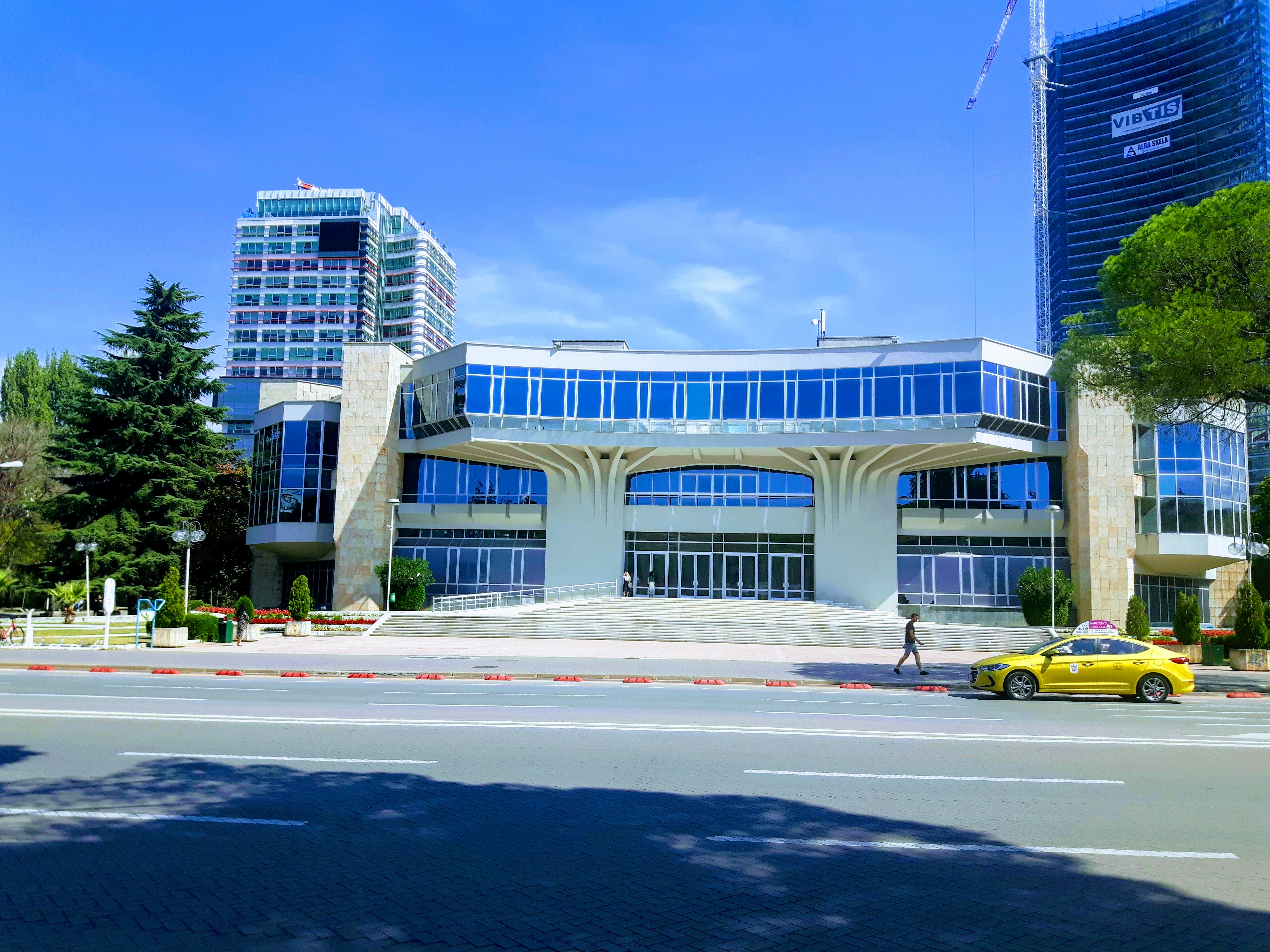 Palace of Congresses in Tiranë